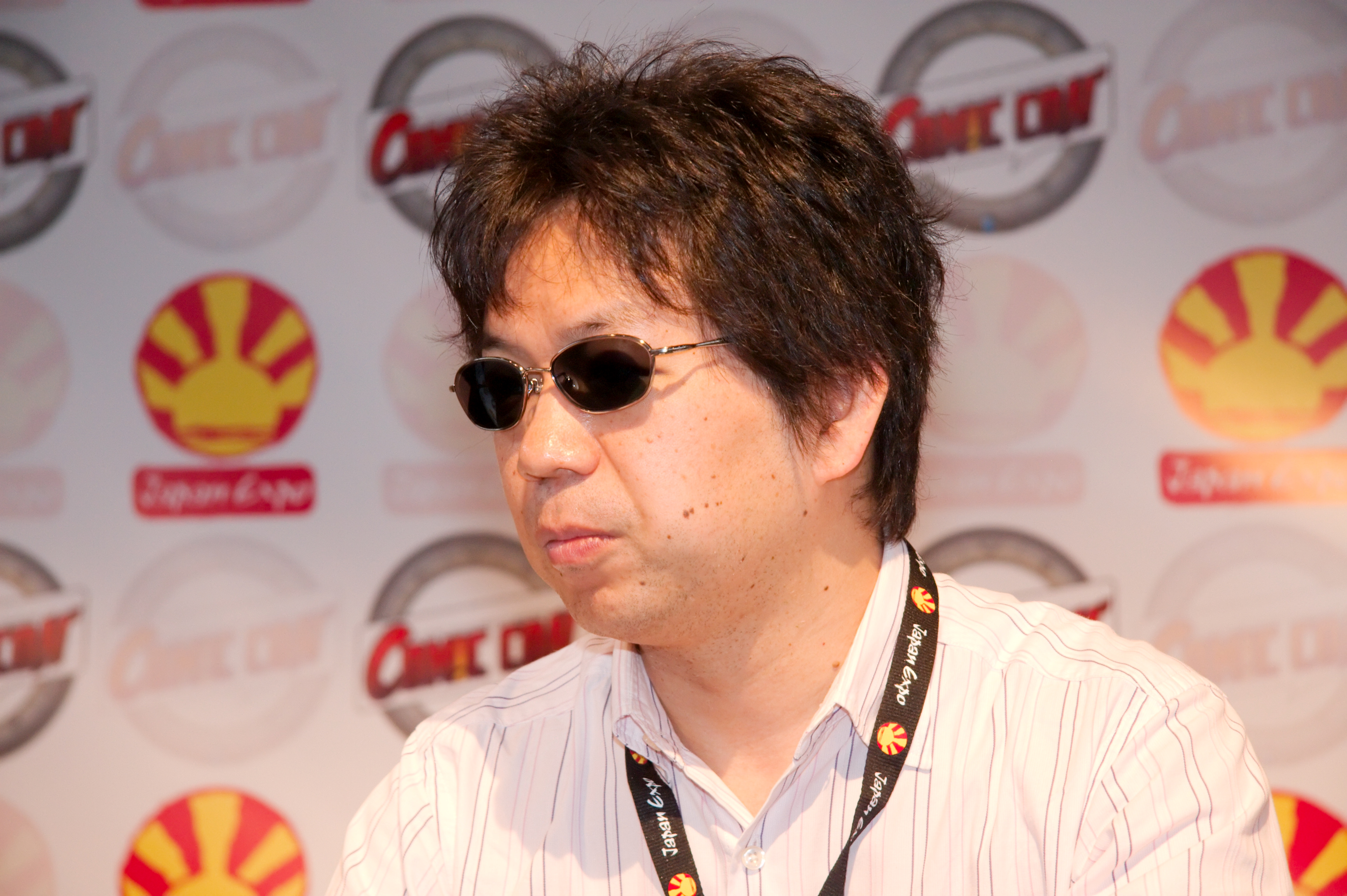 Autograph session with Shinichirō Watanabe at Japan Expo 2009 (Paris, France).